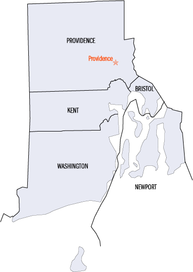 Category:Rhode Island maps